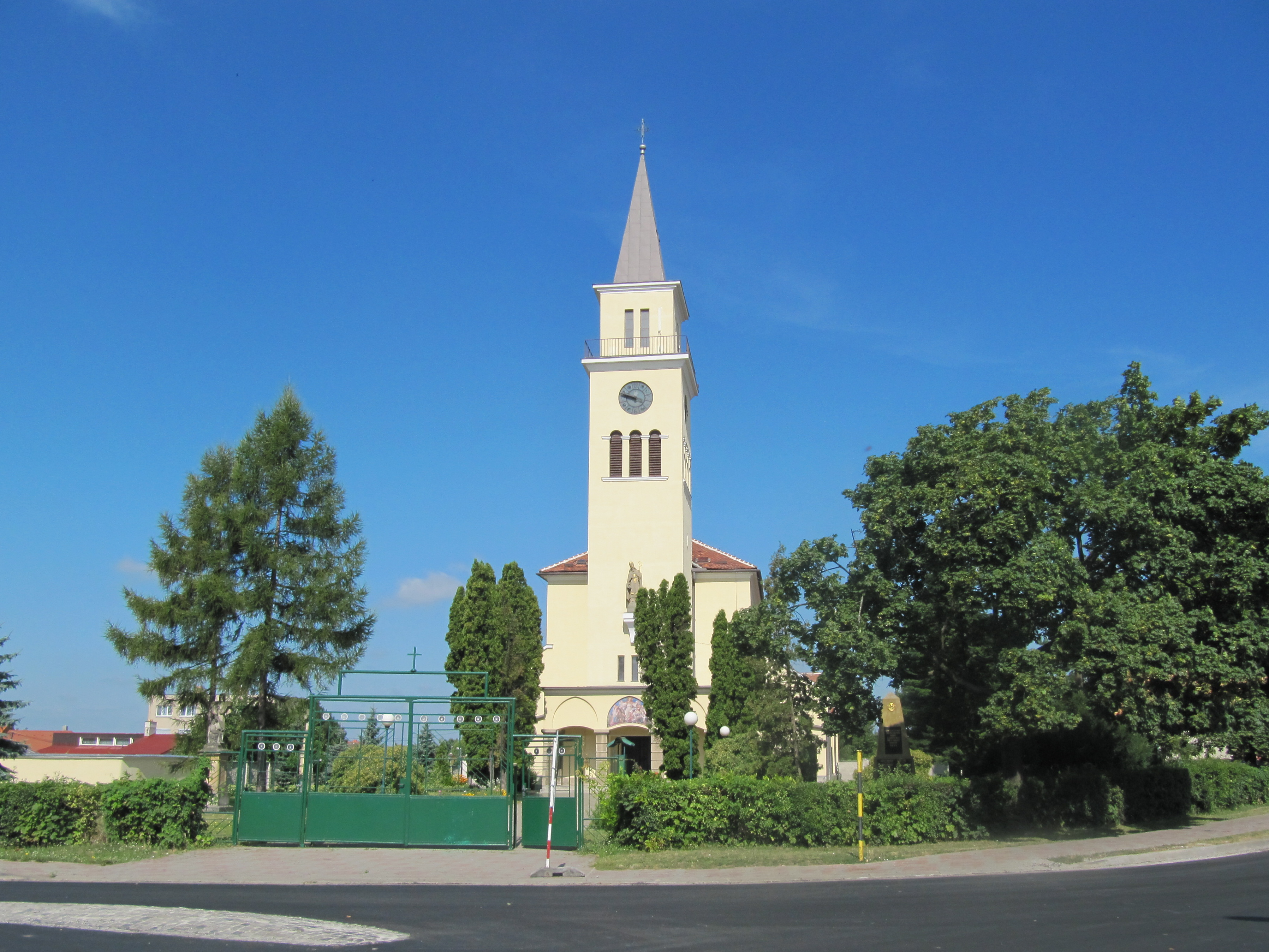 Tvrdonice in Břeclav District, Czech Republic. Church of St. Nicholas. This photograph was taken within the scope of the third year of the 'Czech Municipalities Photographs' grant.